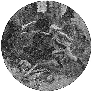 An illustration from Jules Verne's novel "The Secret of William Storitz" (written in 1898, firts published in 1910 after his death with changes made by his son Michel) drawn by George Roux.